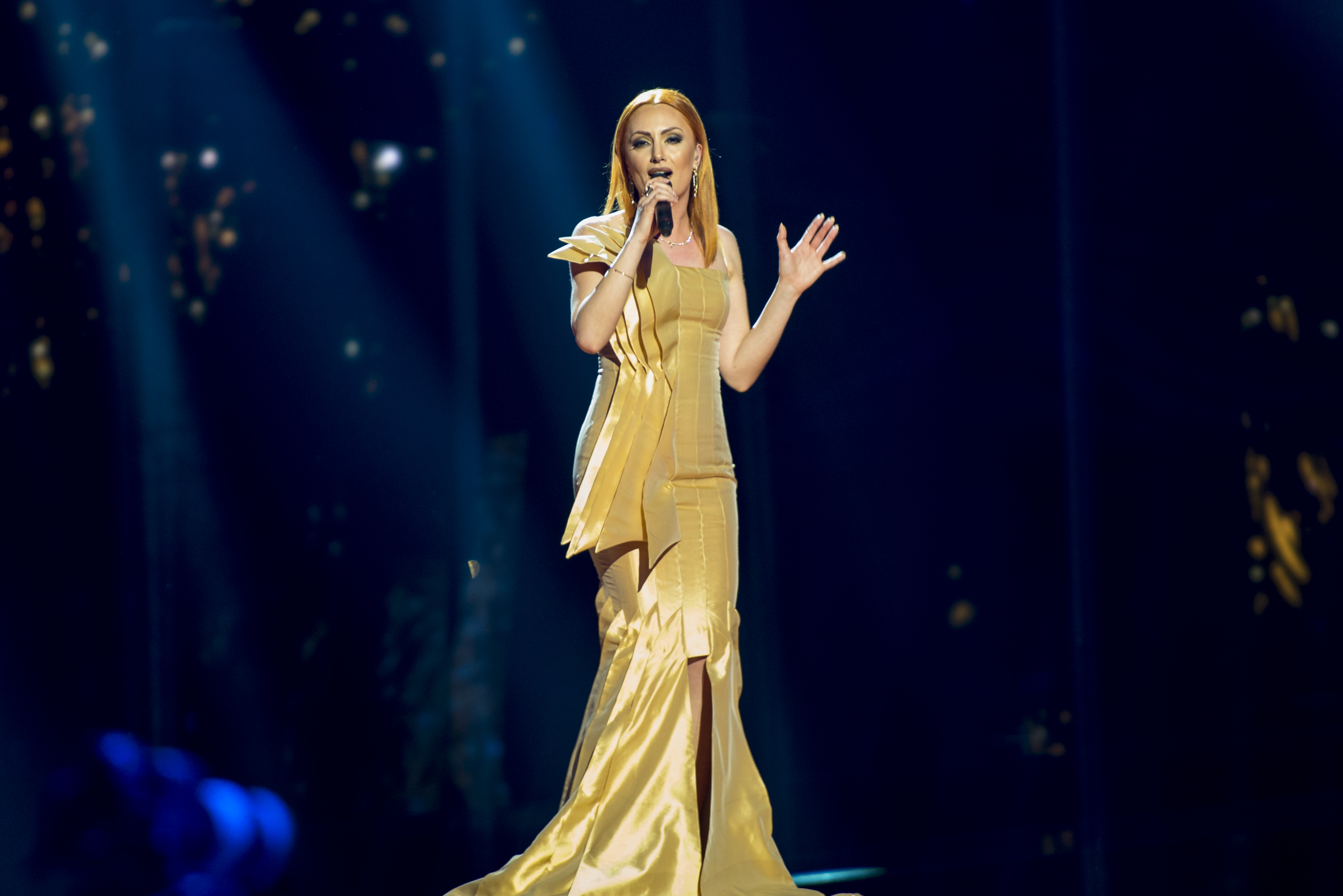 Eneda Tarifa representing Albania with the song "Fairytale" during a rehearsal before the second semi final of the Eurovision Song Contest 2016 in Stockholm. (Help translate this text)